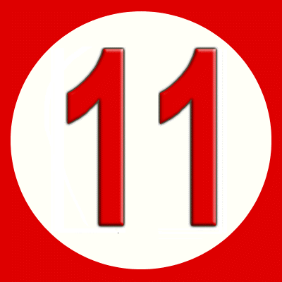 Illustration of Barry Larkin's Retired Reds Number